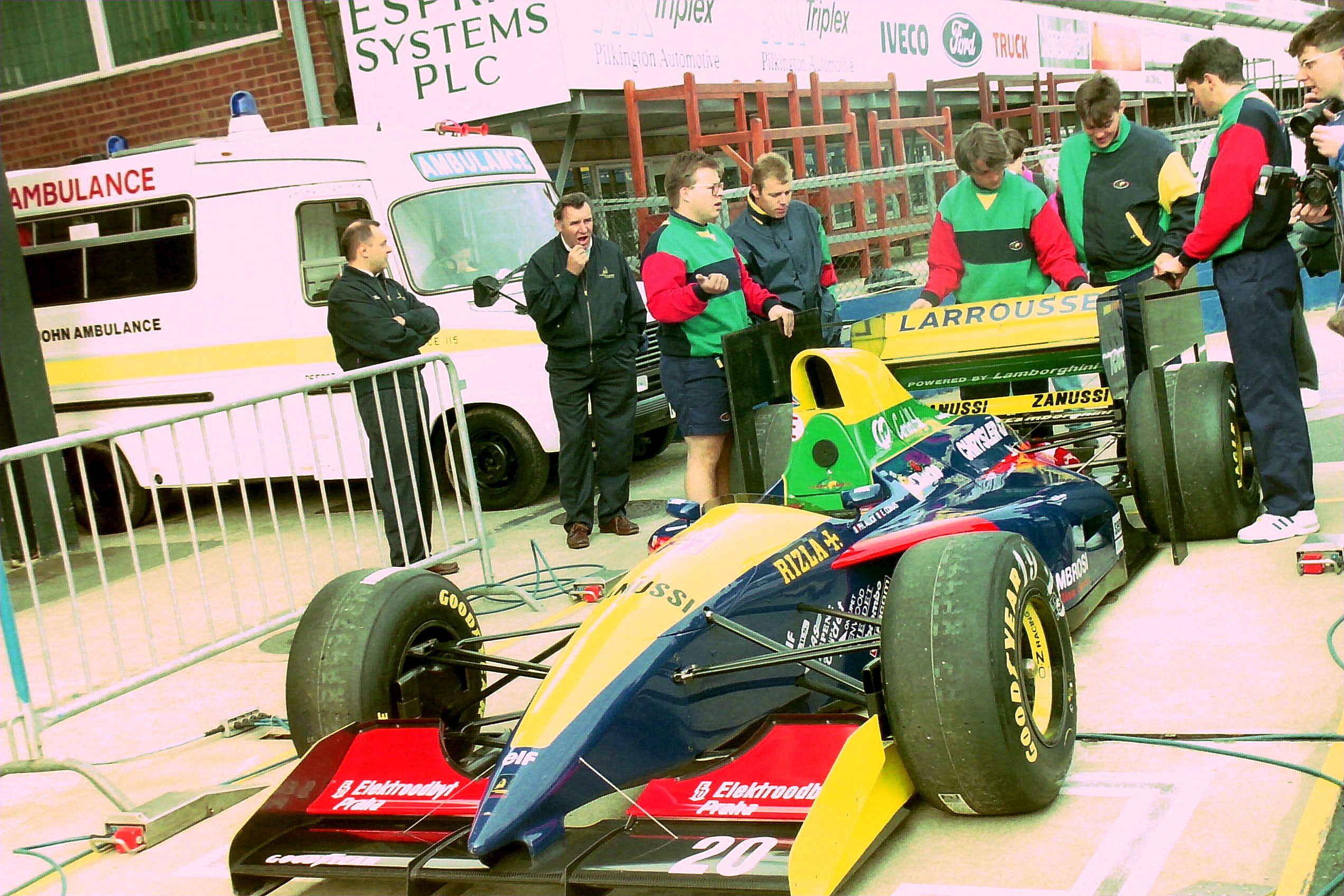 Erik Comas`s Larrousse LH93 in the pit lane at the 1993 British Grand Prix